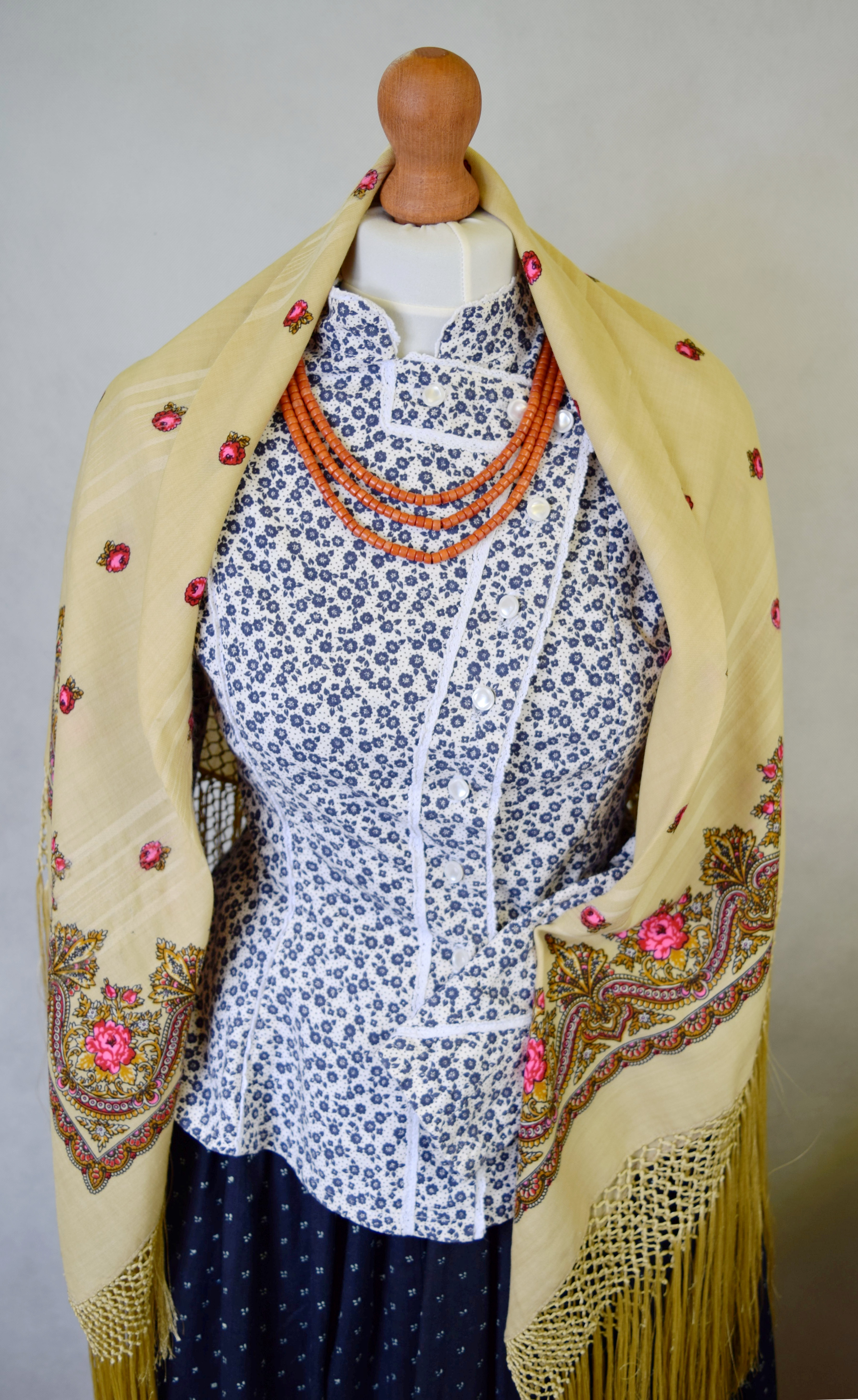 Outfit in traditional Żywiec Beskids style, made by Jadwiga Jurasz